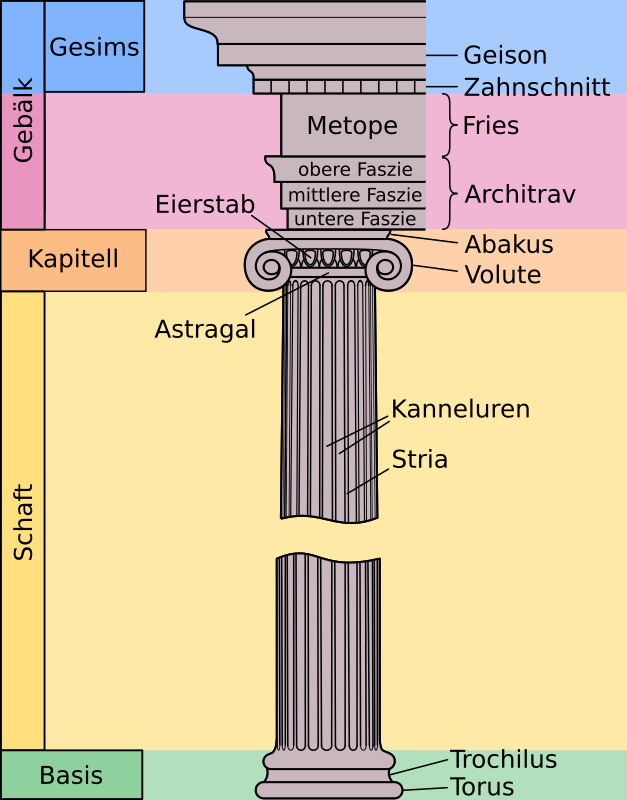 ionic column